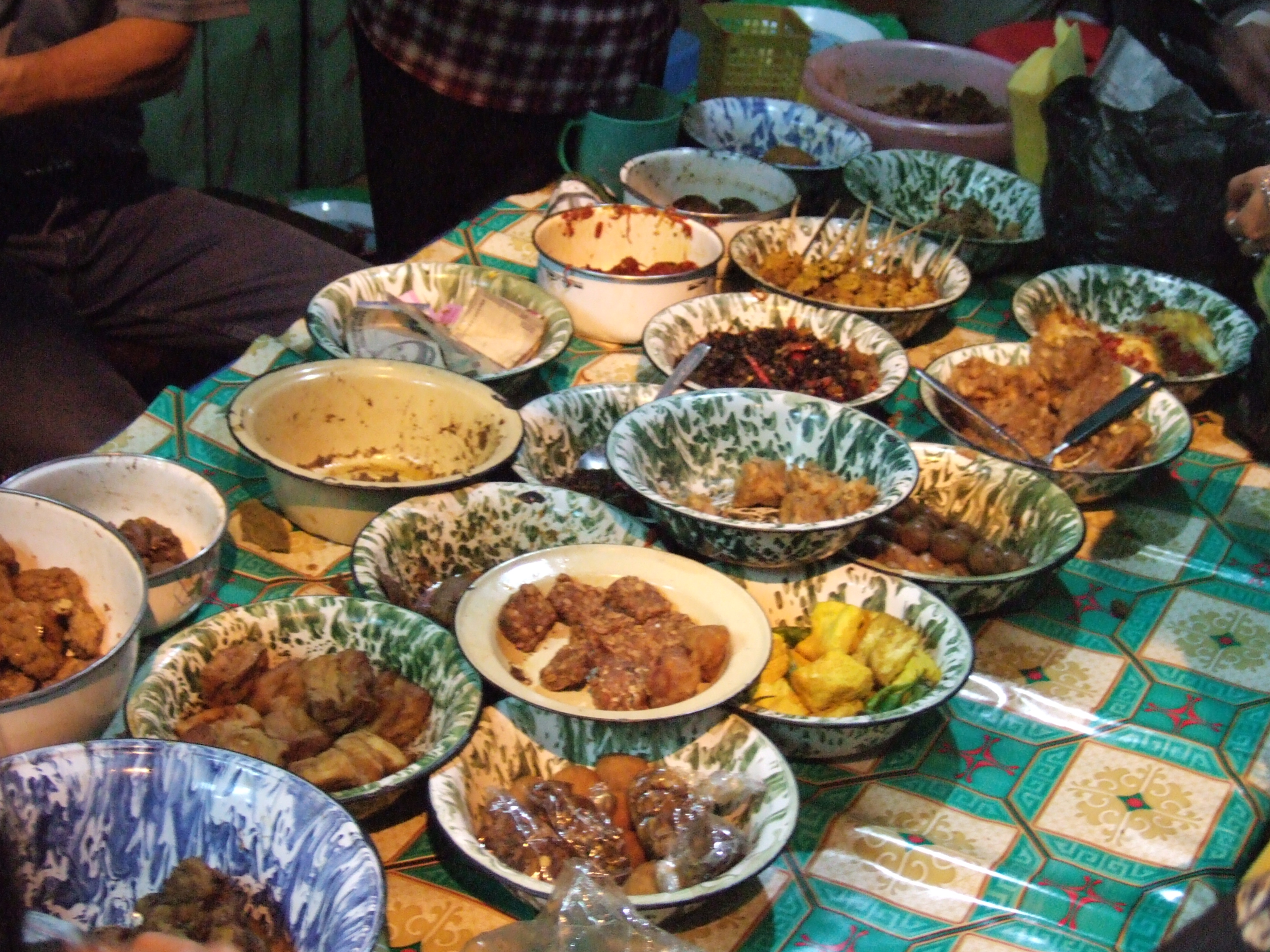 Nasi Jamblang (Sega Jamblang) of Cirebon, West Java, Indonesia. Bowls of dishes to accompany rice served on teak leaves. チルボンのナシ・ジャムブラン。色々なおかずとご飯をチークの葉の上に載せて食べる。